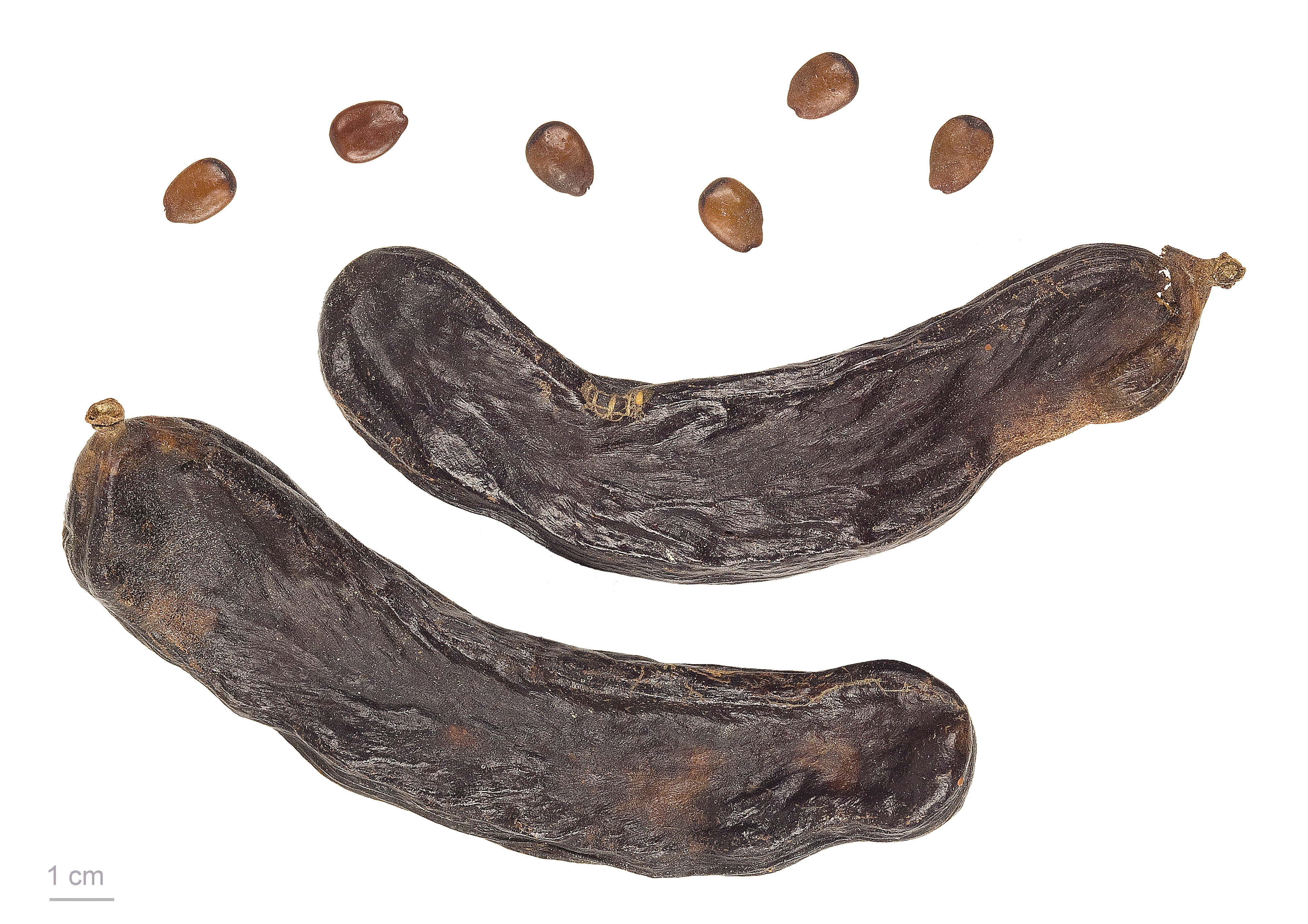 Carob tree , fruits and seeds